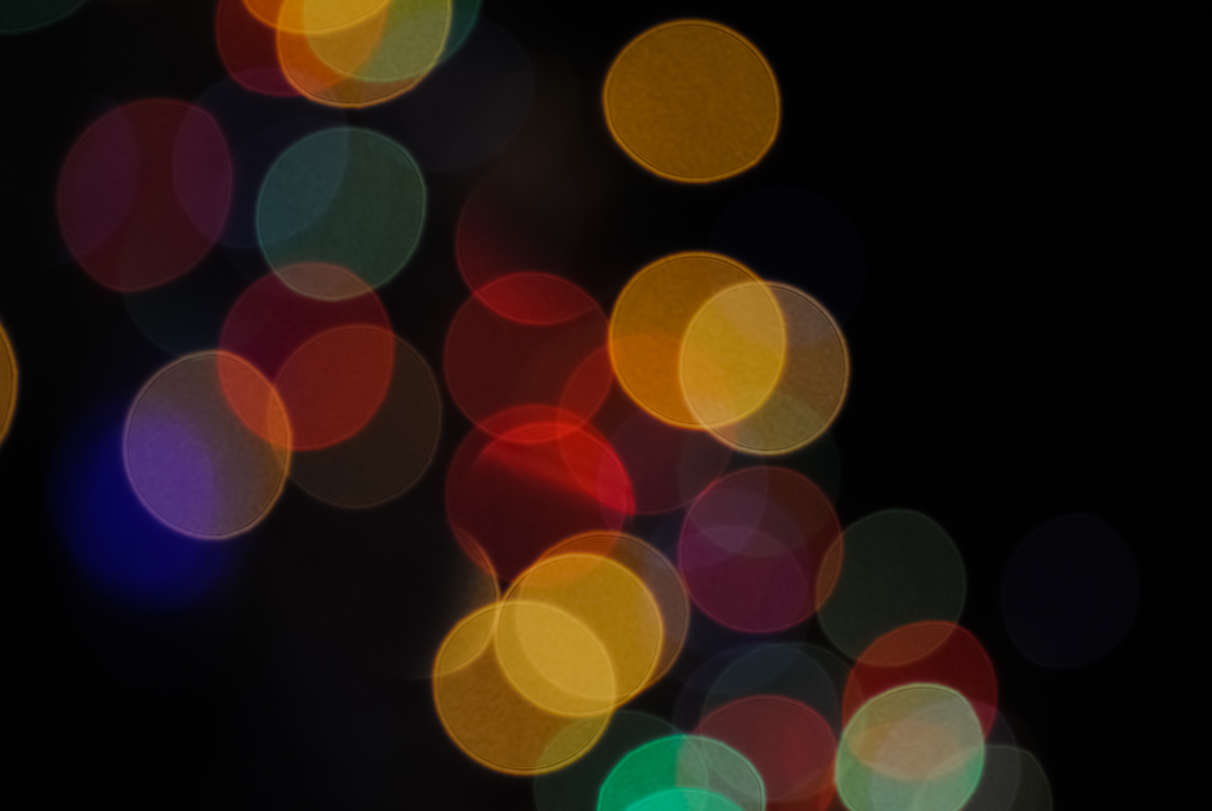 Mixed color pattern of light orbs